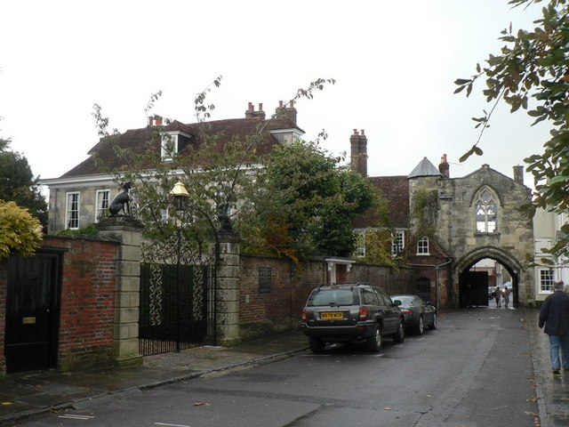 Salisbury: Malmesbury House and St. Anne's Gate Malmesbury House is at the eastern side of the Cathedral Close and was originally built as a canonry in the 13th century. The west front, seen here, was designed by Christopher Wren. To the right is 999948.